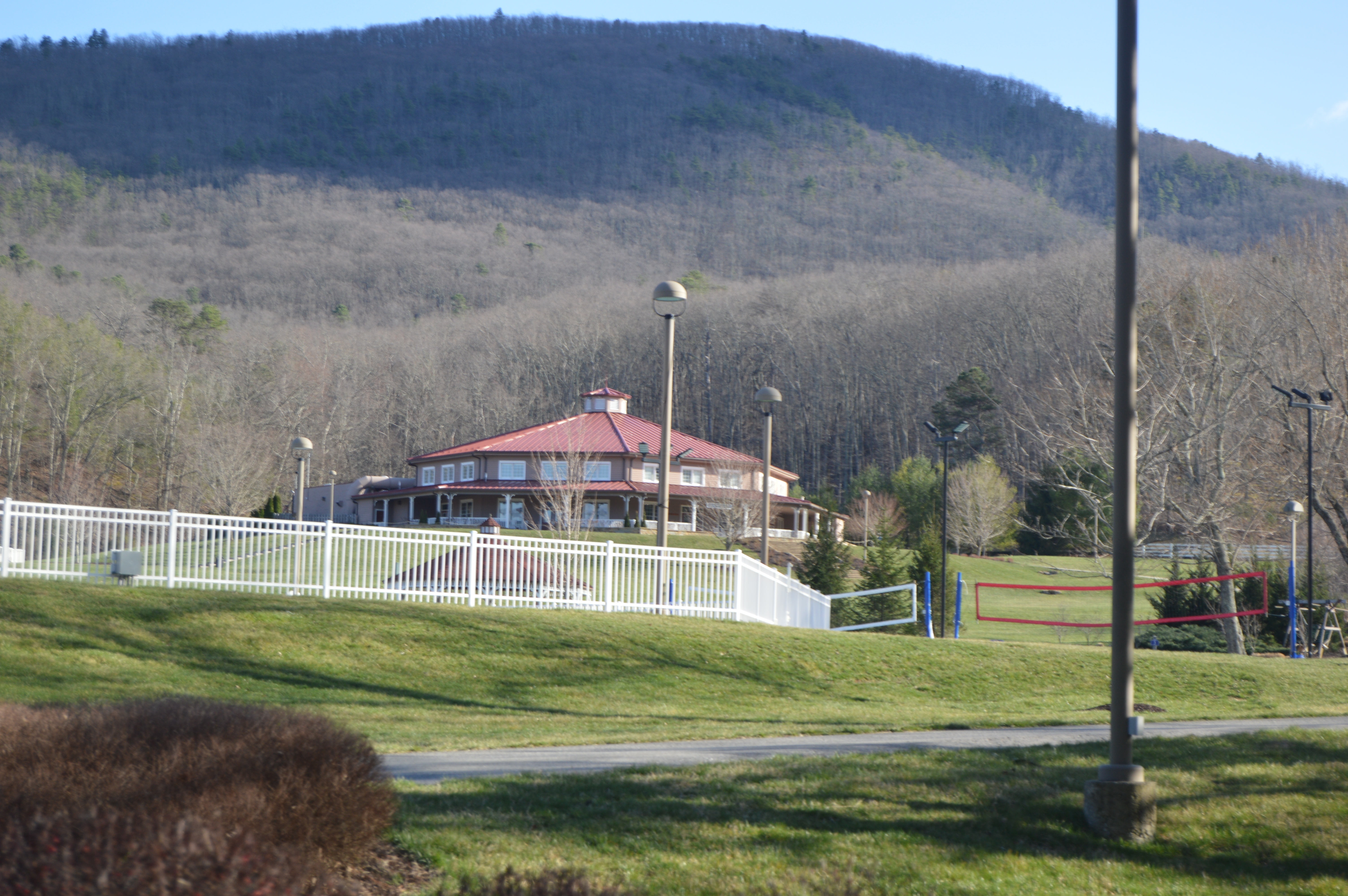 Distant view from the north of the center of the Rockbridge Alum Springs complex, located on Rockbridge Alum Springs Road south of Millboro in Rockbridge County, Virginia, United States. At the center of the image is the camp dining hall that was built in 1994. The complex is listed on the National Register of Historic Places as a historic district.